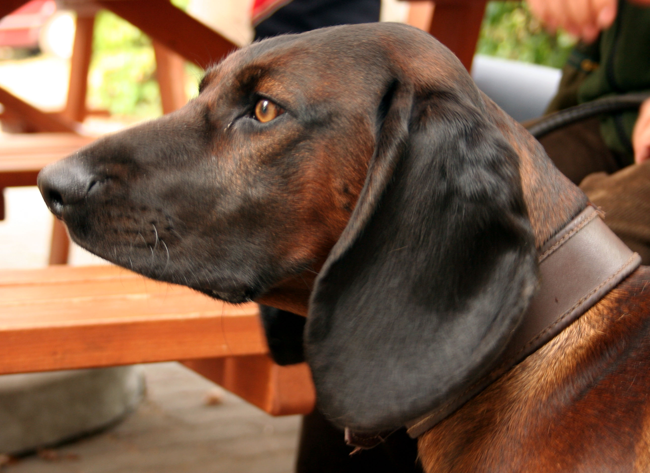 Bavarian Mountain Hound